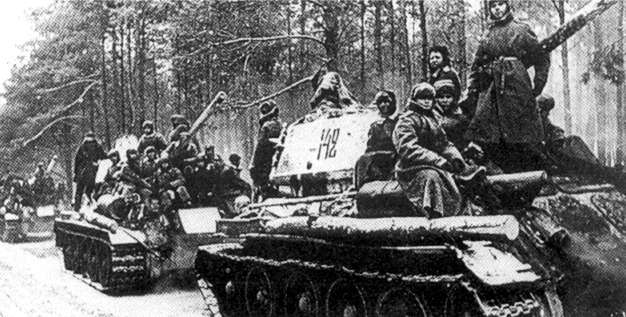 Soviet tanks during the Oder offensive (1945)